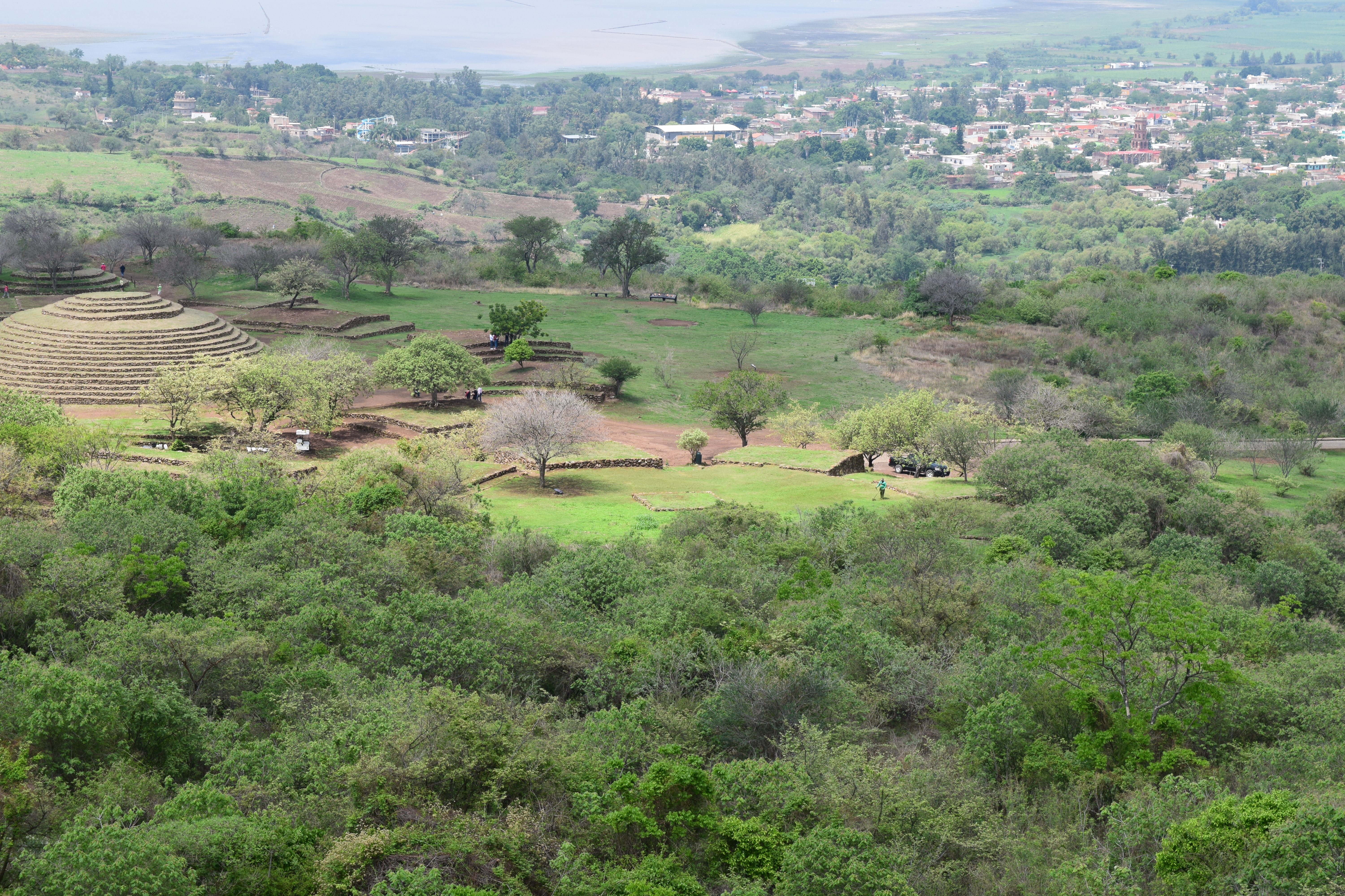 A view of Circle 4 at the site of Los Guachimontones, Jalisco, Mexico from atop a nearby hill